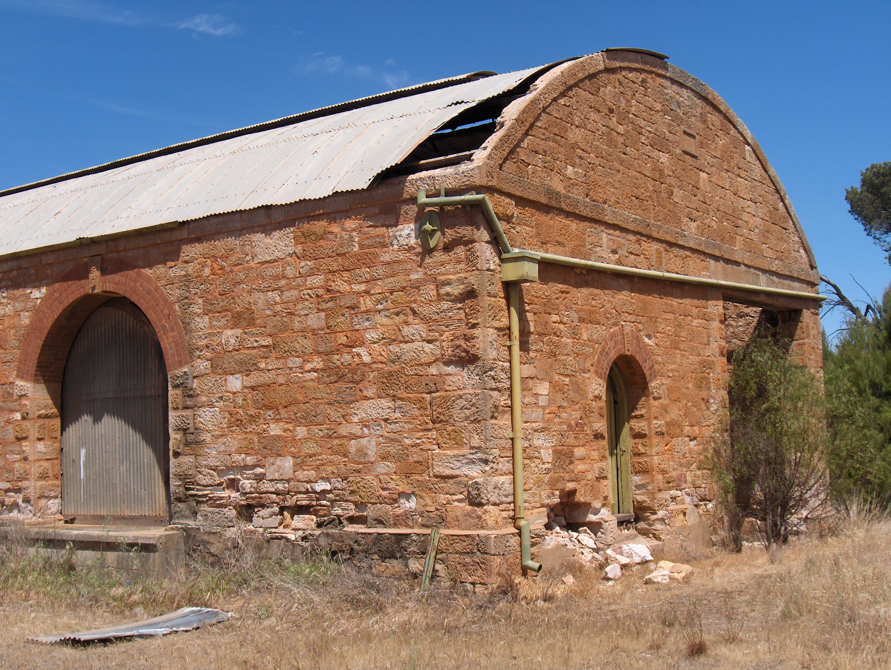 Stone goods shed, located at Hoyleton, South Australia